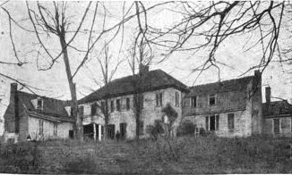 Photograph of Black Heath house taken before 1915, perhaps in the late 1800s or early 1900s. The house was built in the 1790s or 1800s by Harry Heth. Collapsed around the 1920s as a result of coal mines underneath the house and subsequently demolished. The site is just northeast of modern day Midlothian, Virginia